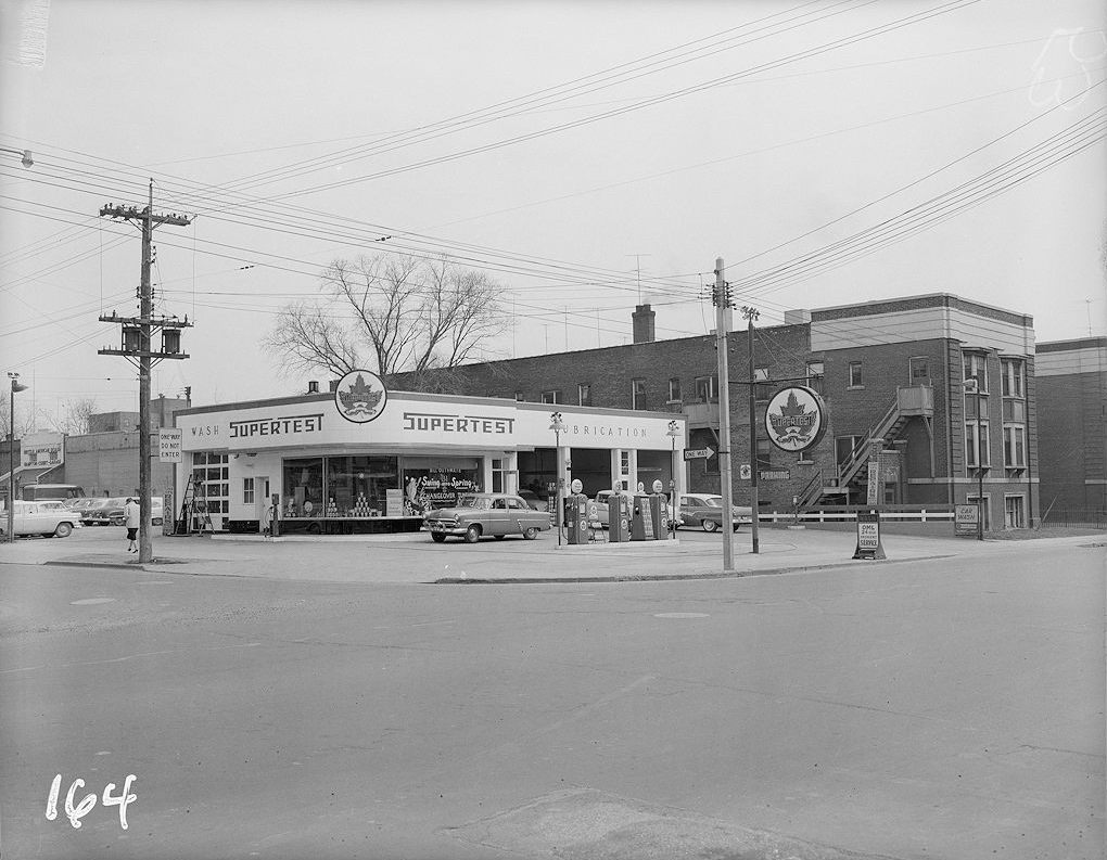 Supertest gas station, Avenue Road Photographer: Alexandra Studio